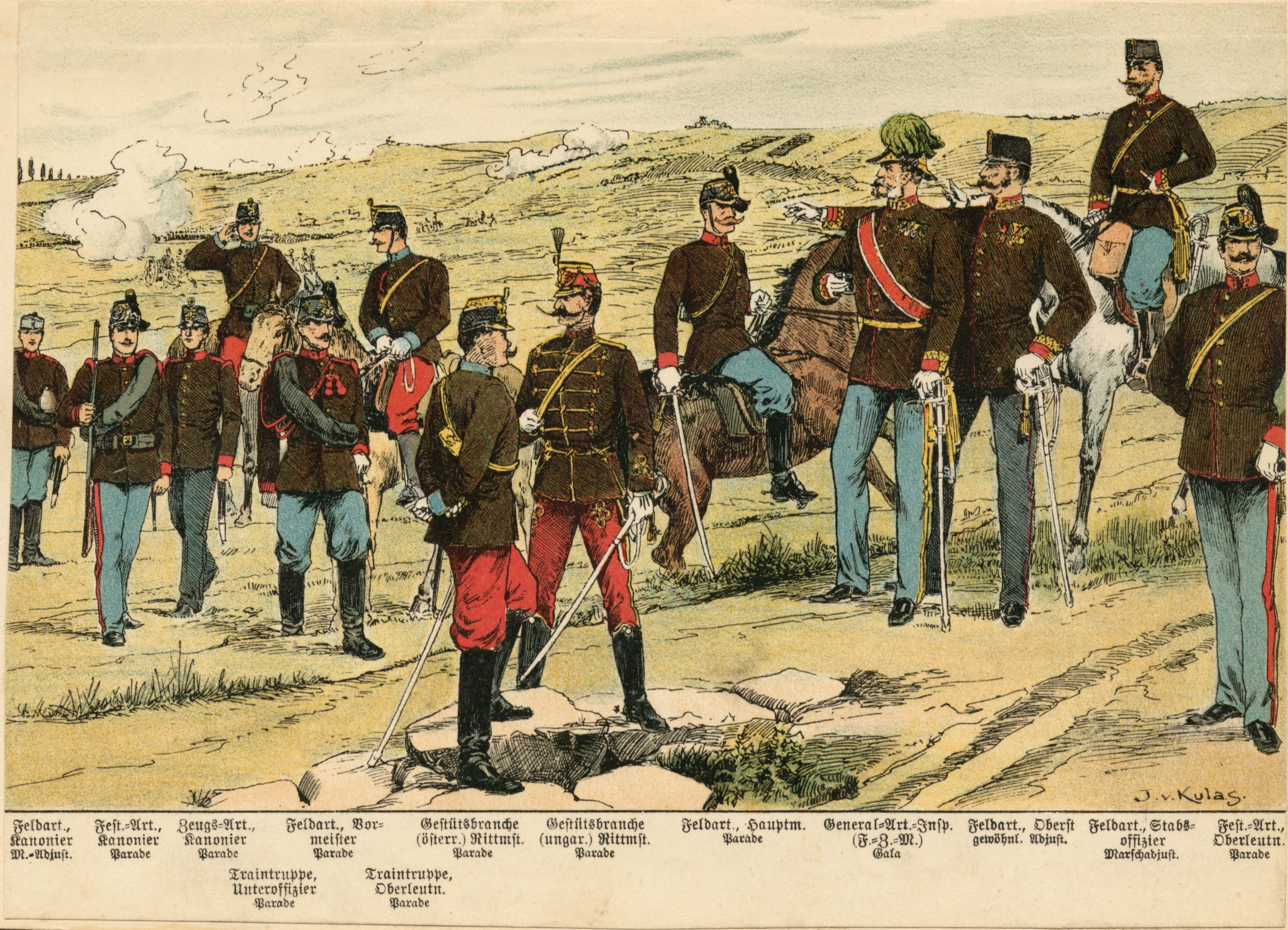 Ownership : Draper Fund Artillery, 1898 (Pflugk-Harttung)